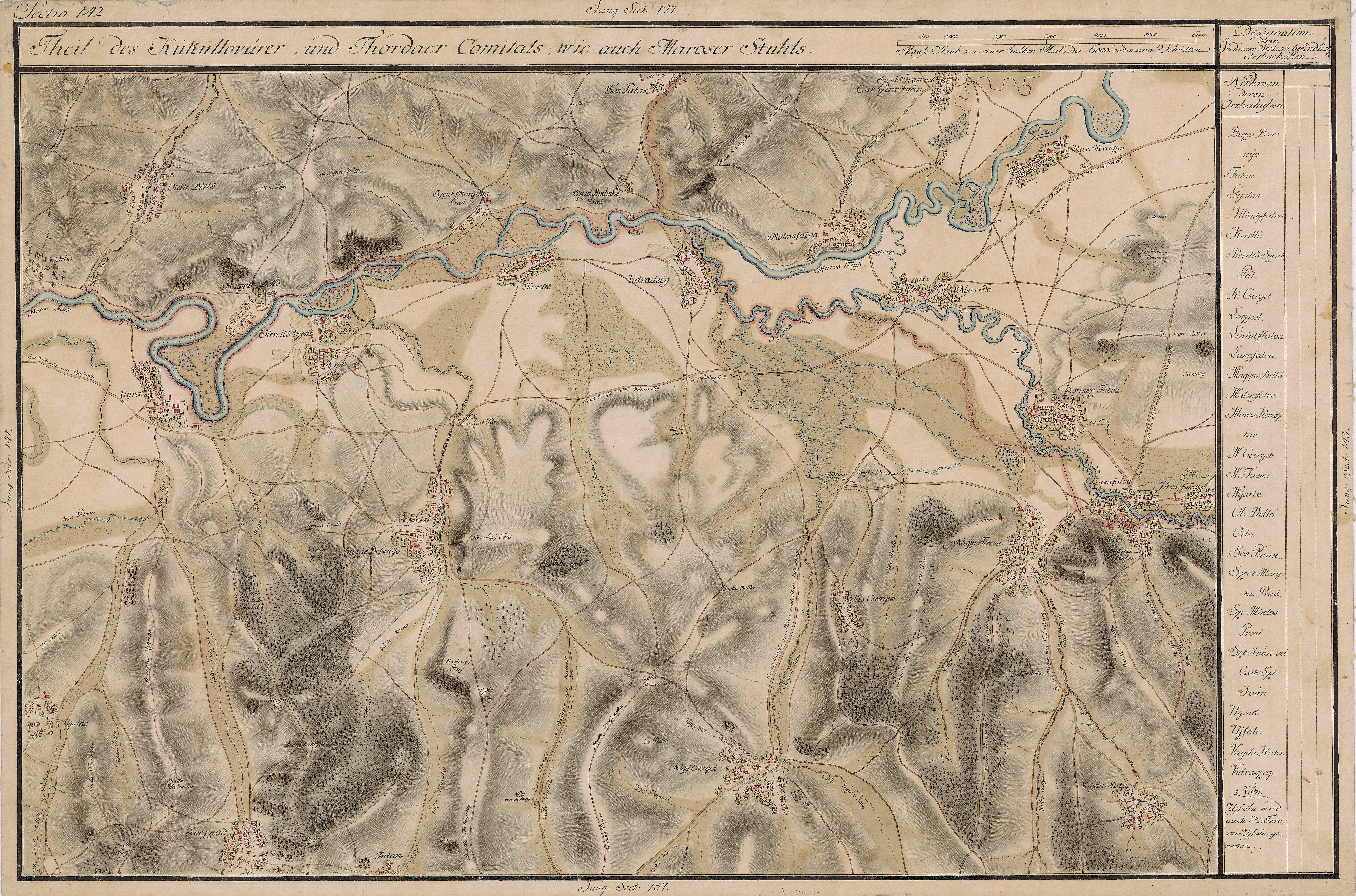 Grand Duchy of Transylvania, 1769-1773. Josephinische Landaufnahme pg.142